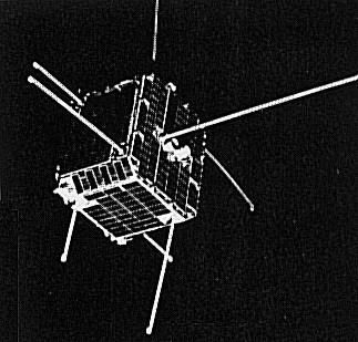 SECOR geodetic satellite